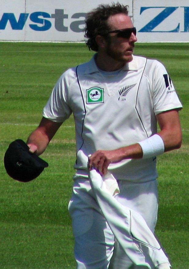 New Zealand cricketer Iain O'Brien, during a test match between New Zealand and Pakistan at the University Oval in Dunedin, New Zealand.